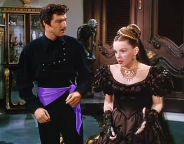 Gene Kelly & Judy Garland in The Pirate - trailer (cropped screenshot)